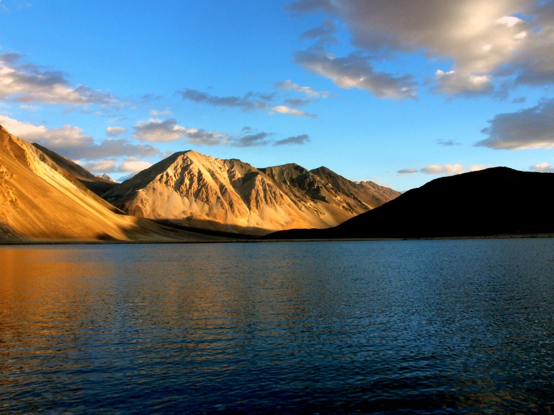 Pangong tso in Ladakh, India is the highest salt water lake in the world; only one-third of the lake is in India and the rest is in Tibet(China)